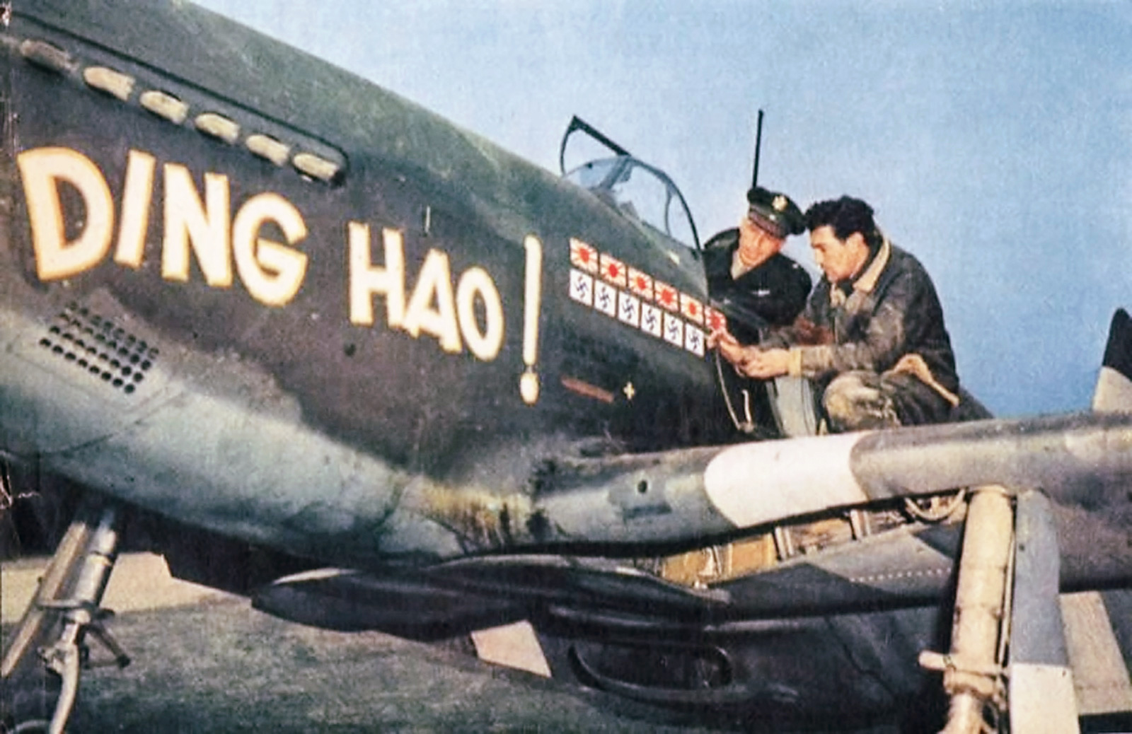 356th Fighter Squadron- North American P-51B-5 Mustang 43-6315 Ding Hao, flown by then Major James H. Howard (in cockpit) when he earned the Medal of Honor.